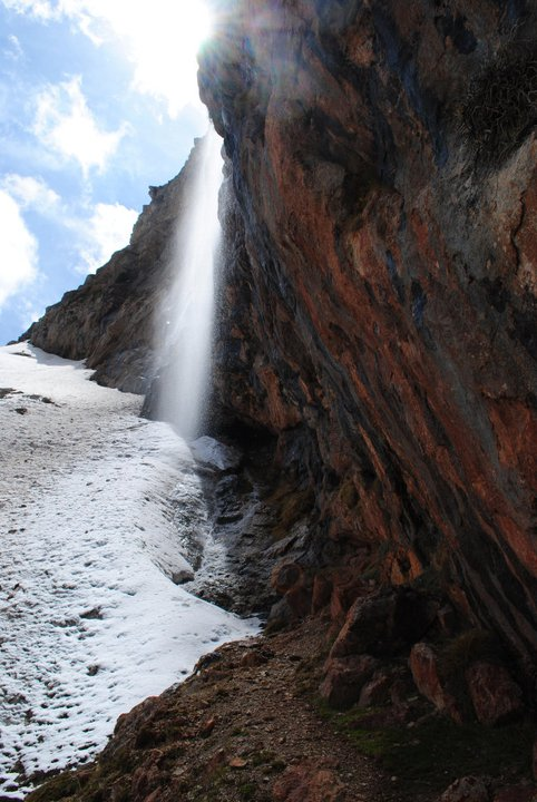 This is a photography of Natura 2000 protected area with ID GR2320002